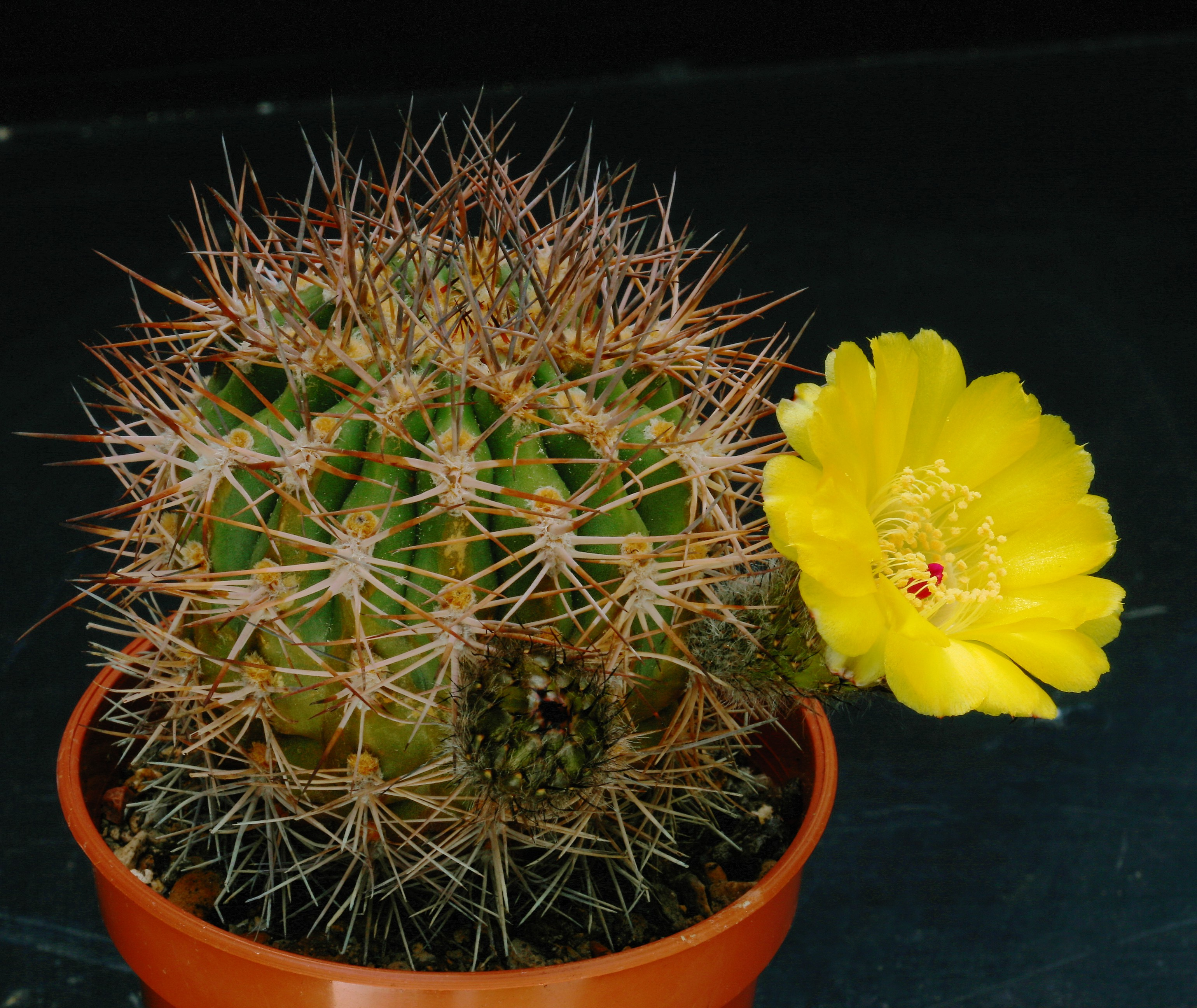 Acanthocalycium thionanthum (= Echinopsis thionantha) 8154